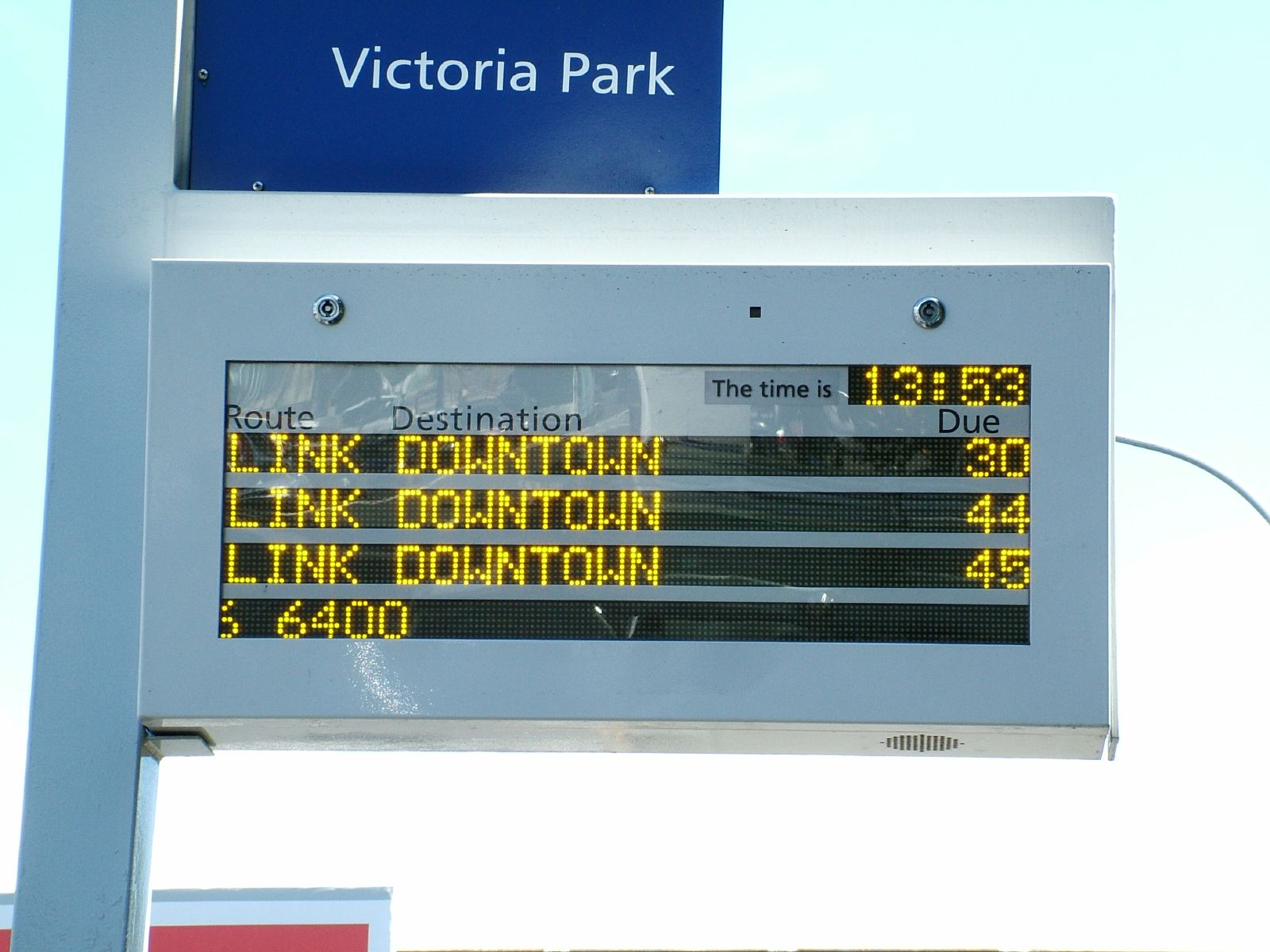 Auckland bus sign at Victoria Park